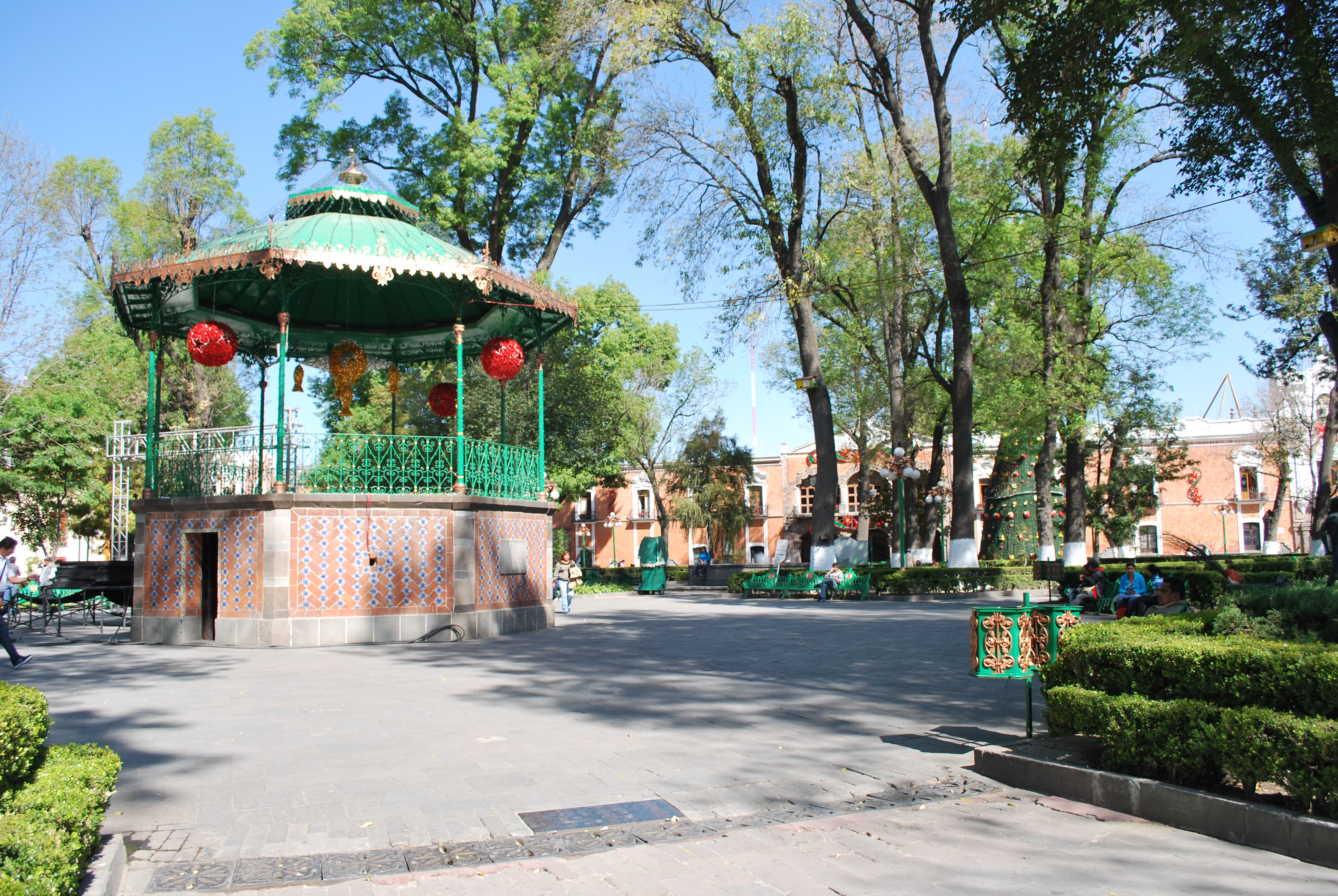 Kiosk in main plaza of Tlaxcala